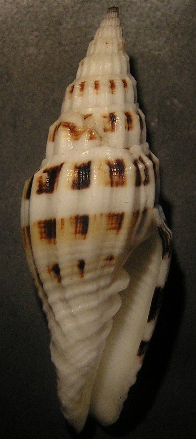 Vexillum (Vexillum) albofulvum Herrmann, 2007 ; a ribbed miter in the family Costellariidae; Philippines